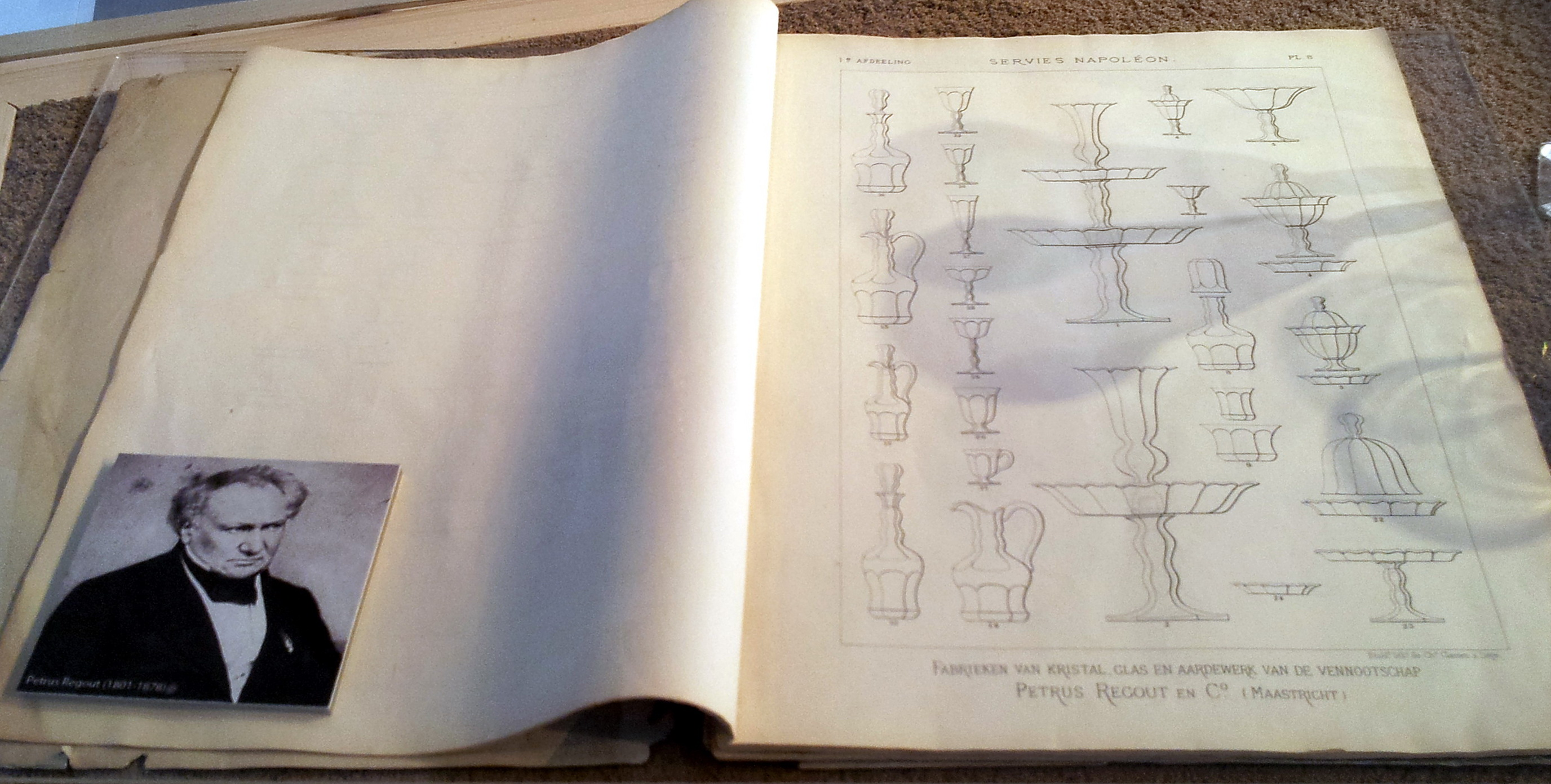 Book with designs for glassware and ceramics (Petrus Regout, Maastricht, late 19th c). Collection of Centre Céramique, Maastricht, the Netherlands.